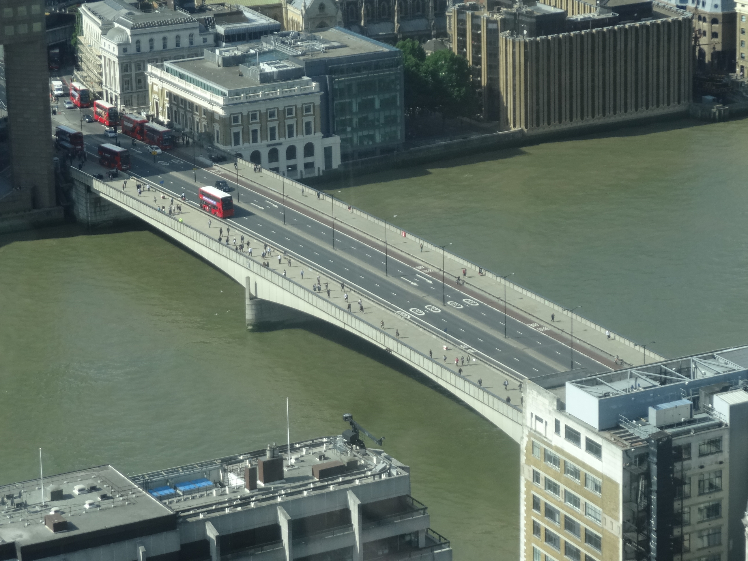 Views to the south from 20 Fenchurch Street. London Bridge